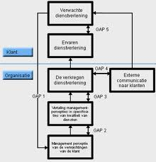 service quality meassurement